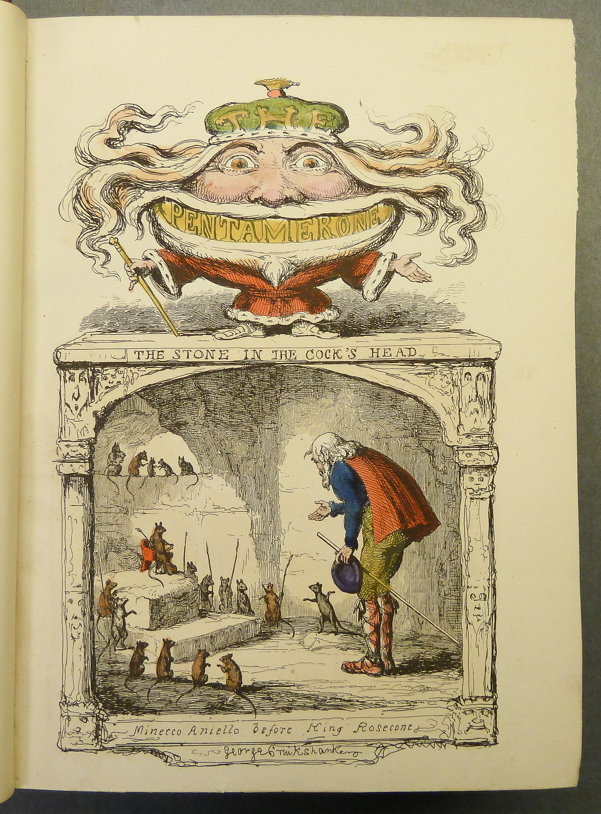 An illustration to Giambattista Basile's "Pentamerone"